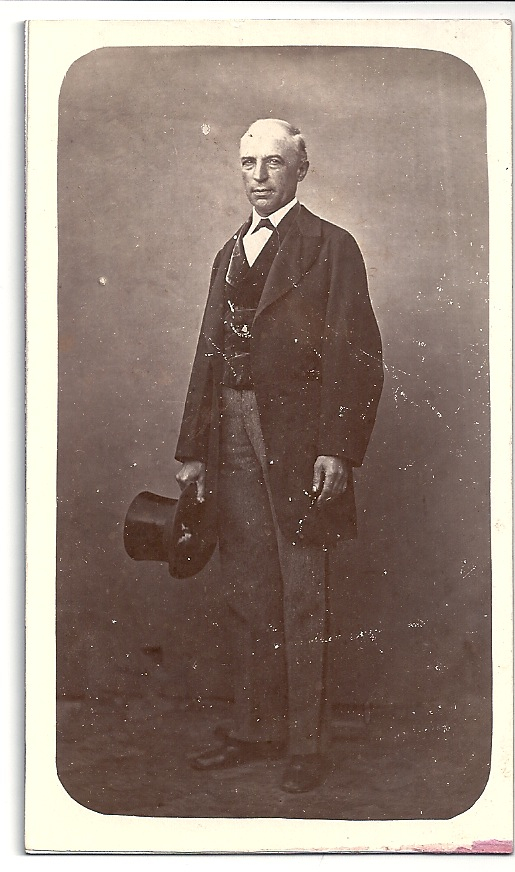 Portrait photography studio, in format "card" (carte de visite), positive leptográfico paper. This "paper leptográfico" was invented by Jose Martinez Sanchez, associated with J. Laurent. Not albumen paper. Years 1866-1868. Madrid. Nineteenth century.